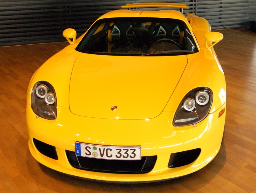 Yellow Porsche Carrera GT